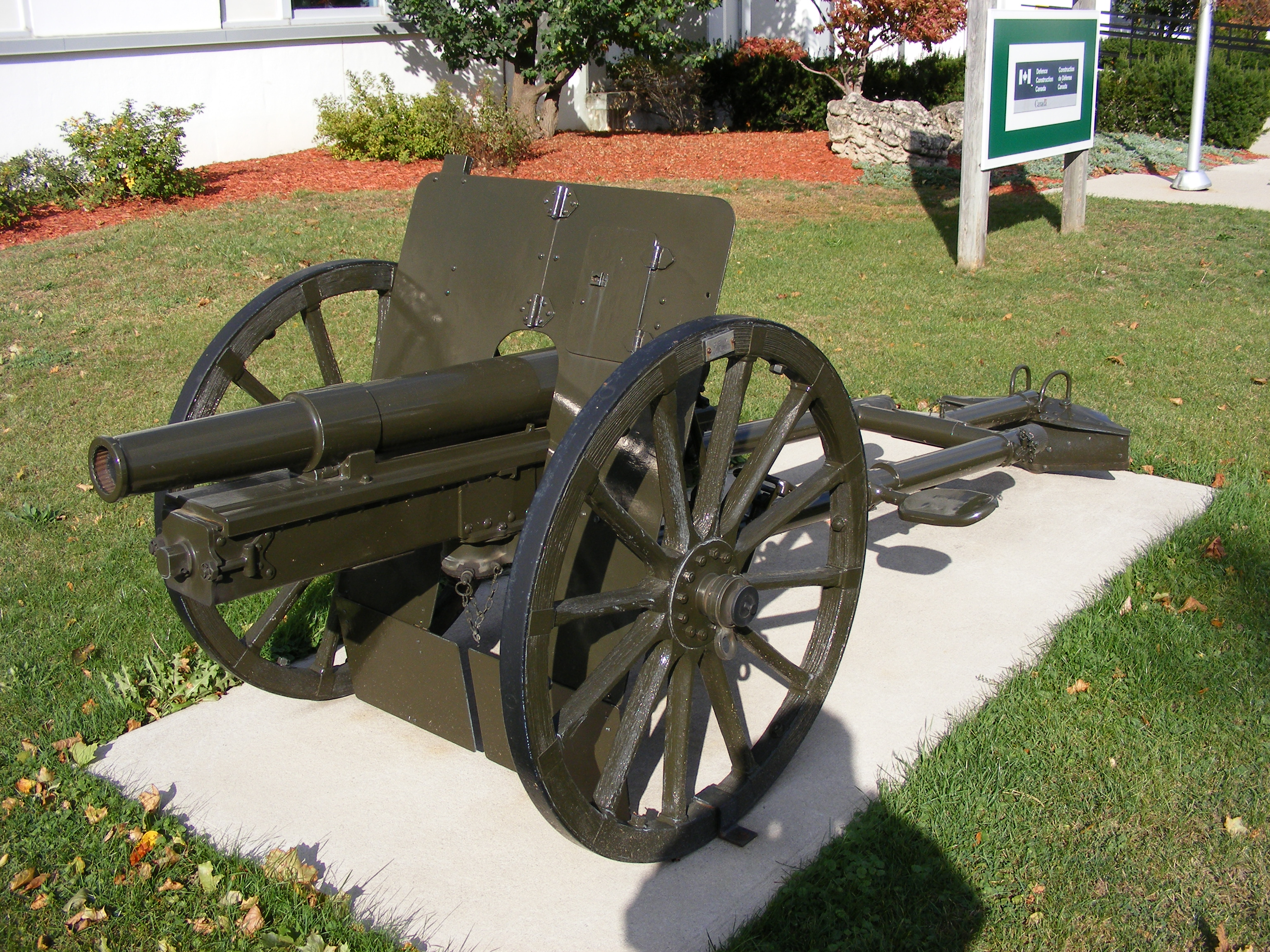 Japanese Type 41 75 mm Mountain Gun, displayed near the Royal Canadian Regiment Military Museum in London, Ontario. Photo taken on October 20, 2007. Source: Photo by me, User:Balcer.